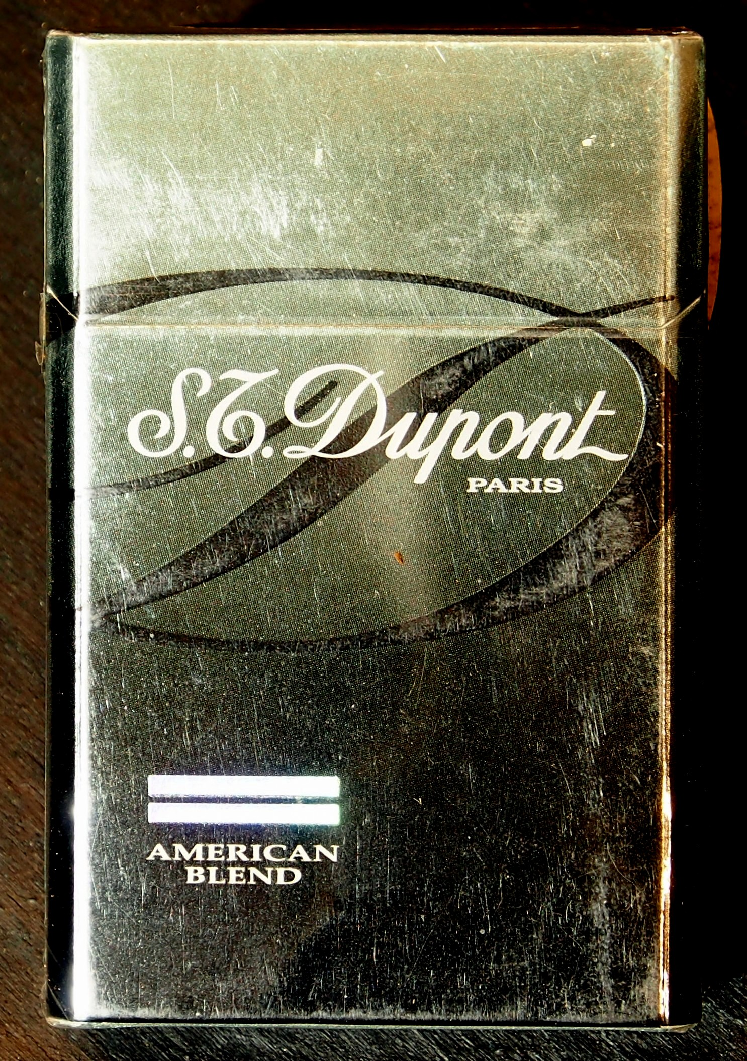 Old product not sold anymore!